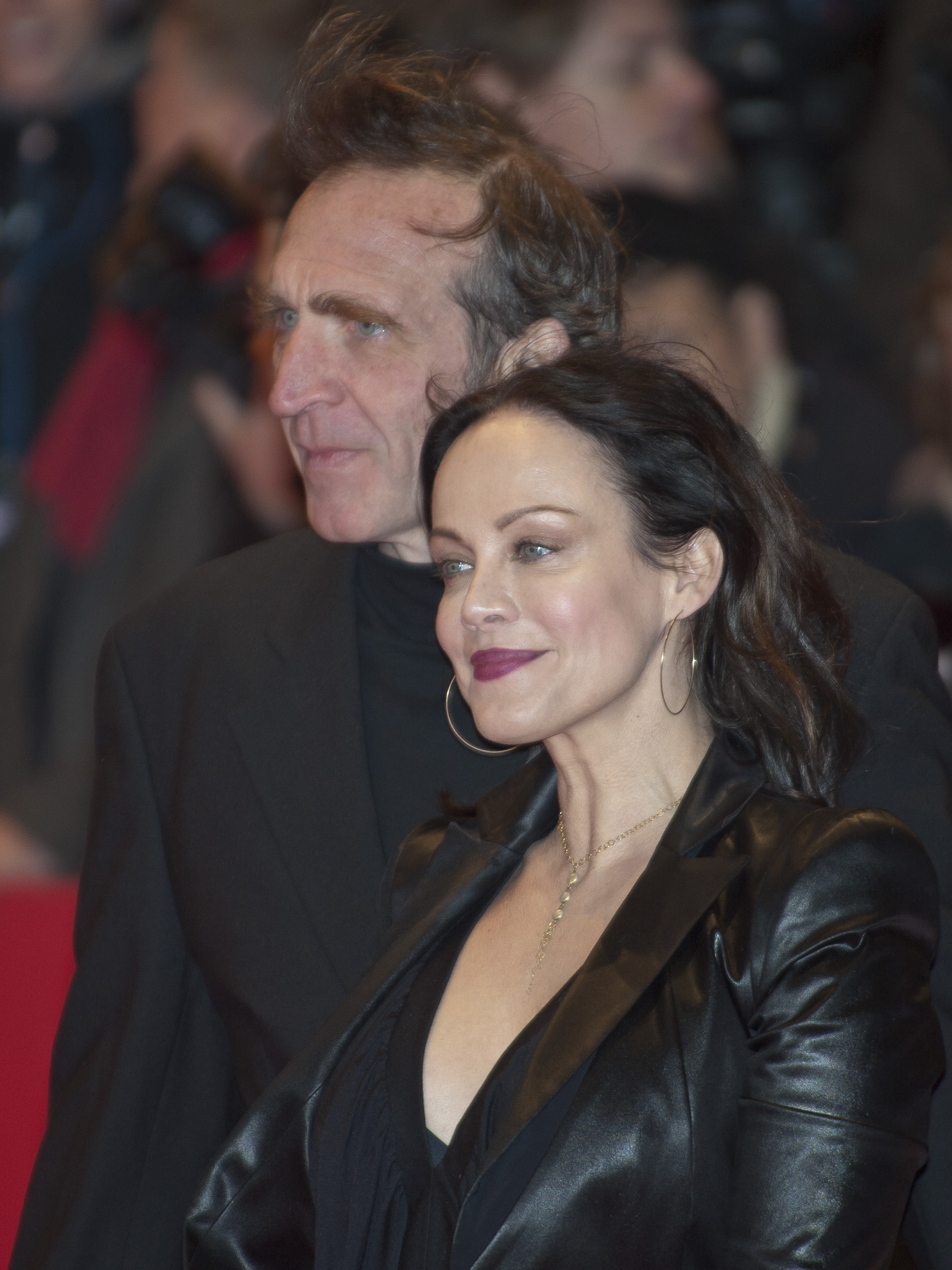 Sonja Kirchberger and Jochen Nickel at the premiere of the movie Margin Call at the Berlin Film Festival 2011